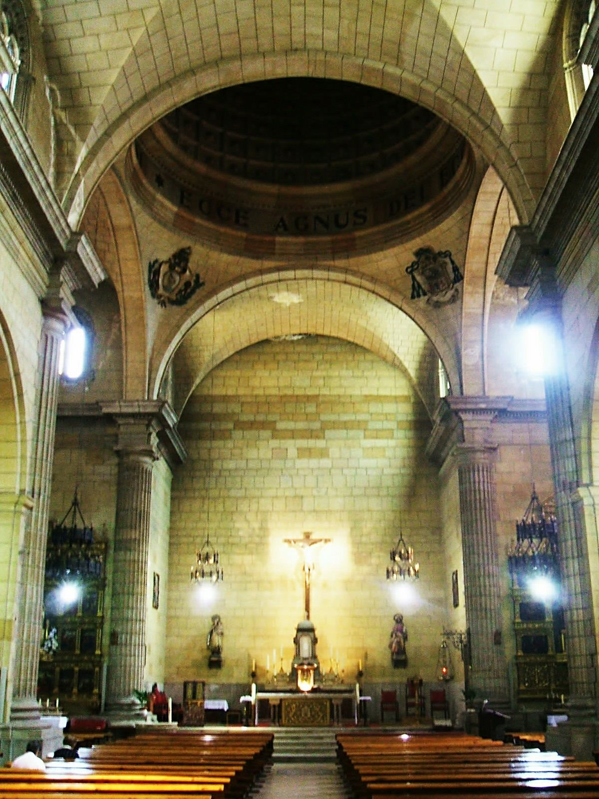 Iglesia de San Juan y San Pedro de Renueva, León, España